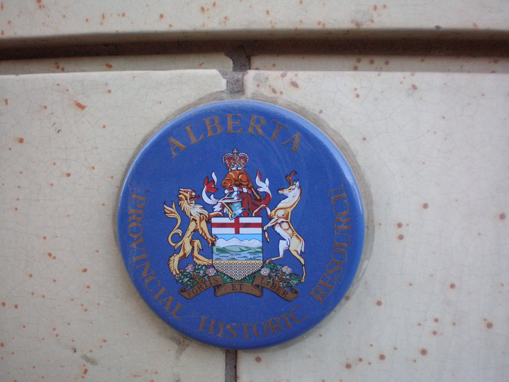 Plaque on the McLeod Building indicating it is a Provincial Historic Resource.